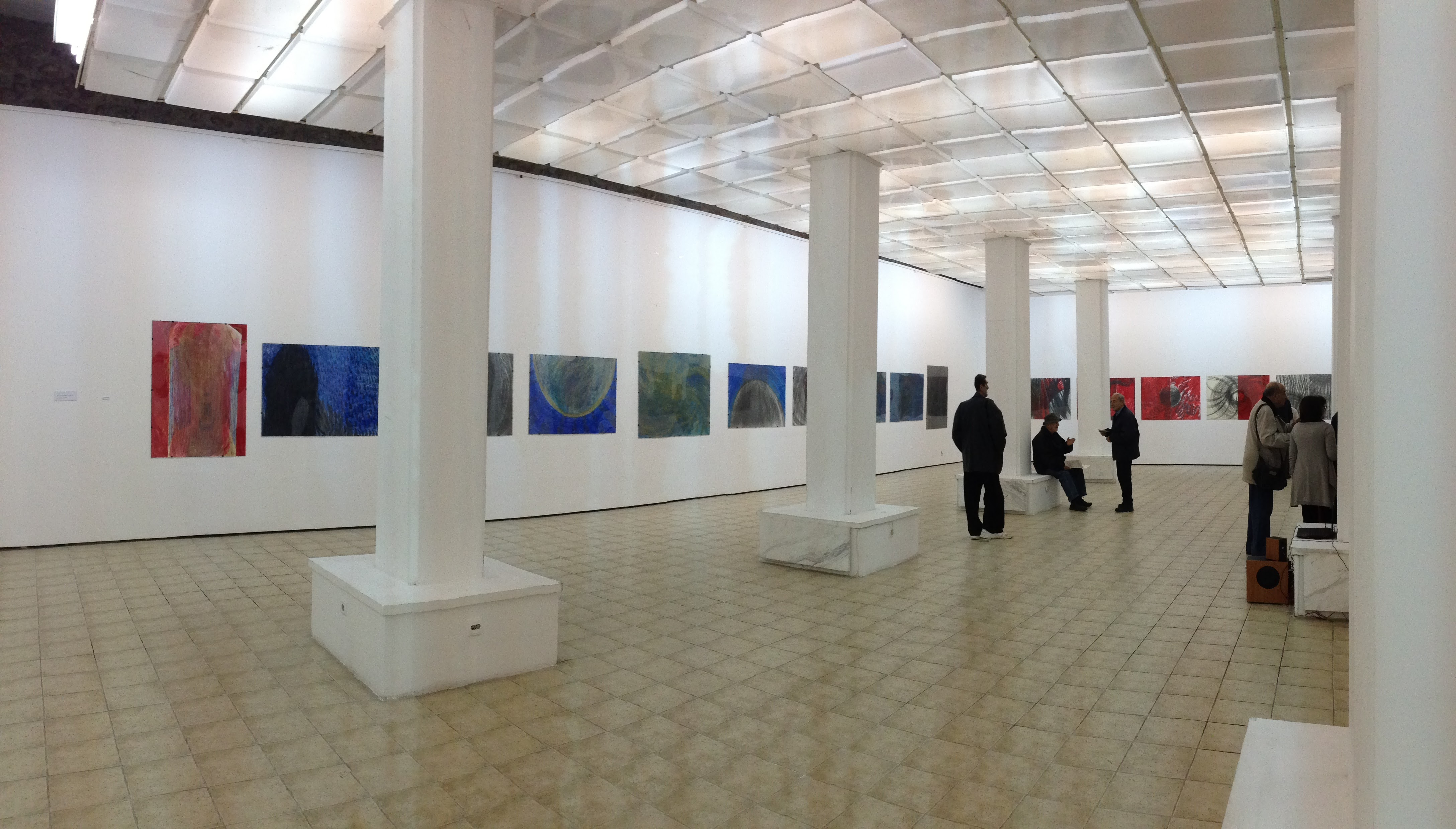 The Gallery of Contemporary Fine Arts Niš, Serbia-Pavillion the Fortress (a former Turkish arsenal). Srpski (latinica): GSLU Niš, Paviljon u Niškoj tvrđavi (nekadašnji turski arsenal).